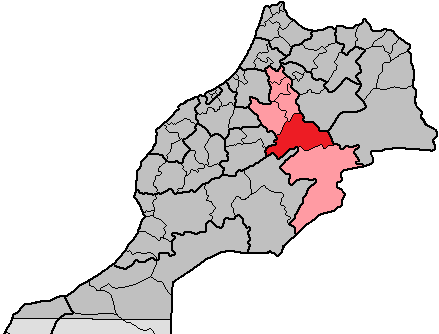 Location of the province Midelt within the region Meknès-Tafilalet, Morocco. In total, Morocco has 16 regions, subdivided into 62 provinces and 13 prefectures.